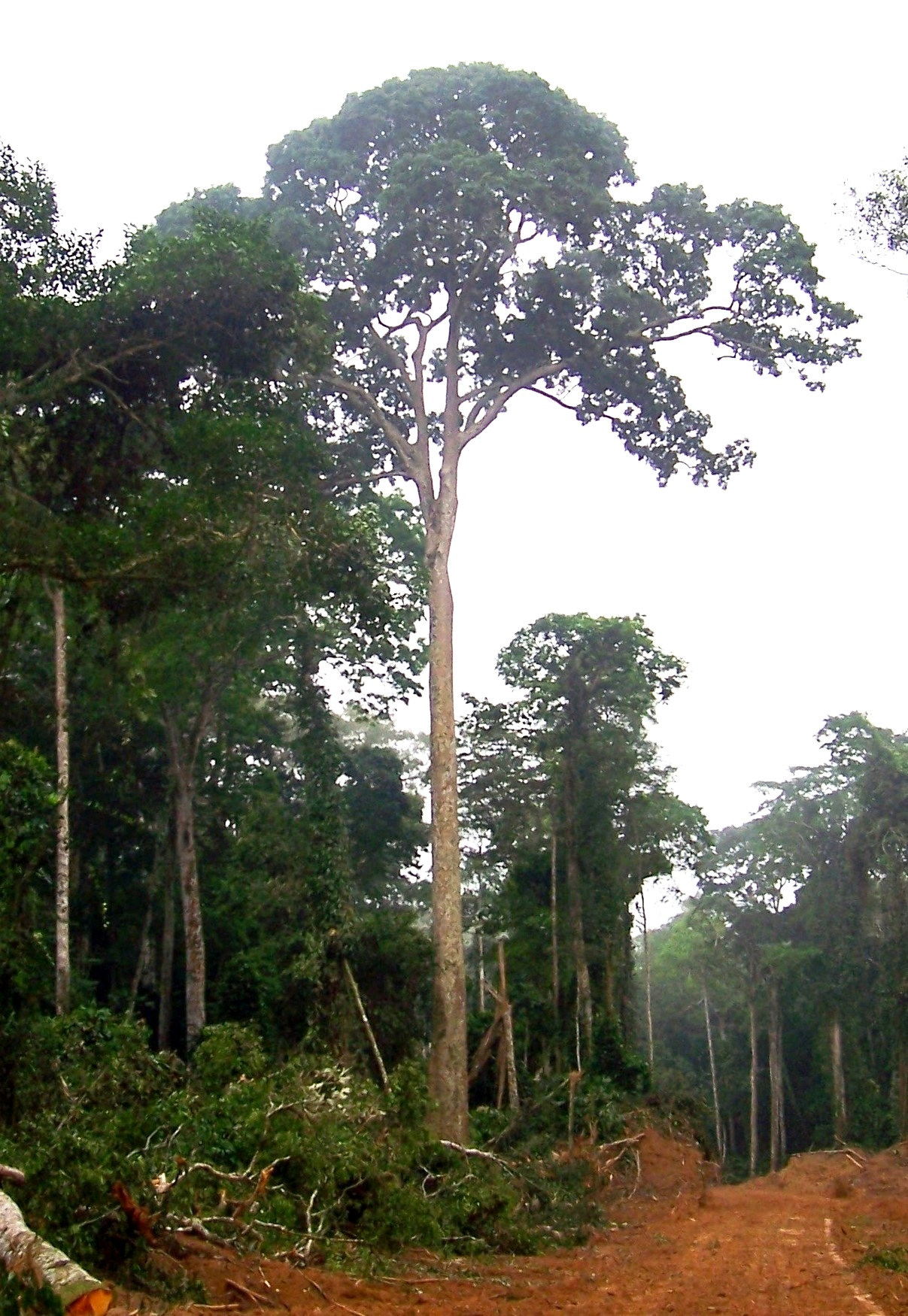 Entandrophragma cylindricum — Sapele Tree. Pokola, Congo-Brazzaville, Republic of the Congo.